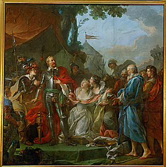 Eustache de Saint-Pierre at the Siege of Calais